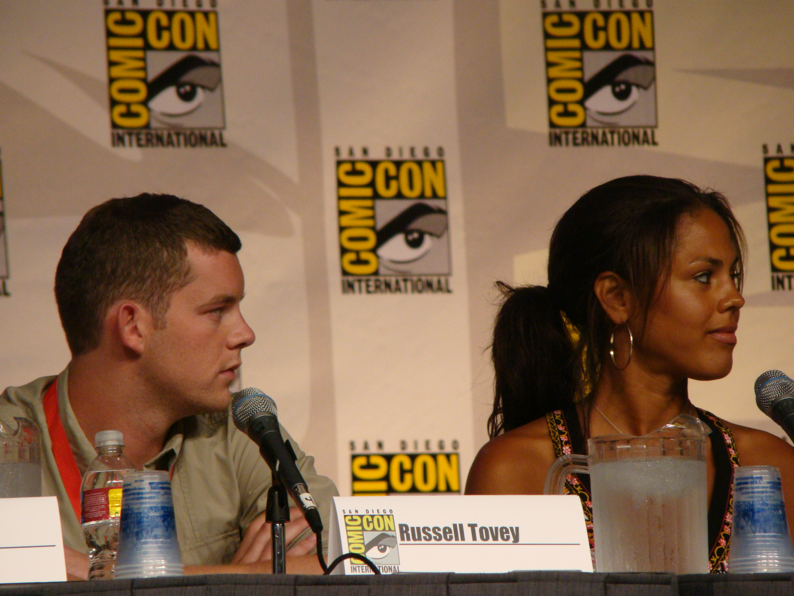 Russell Tovey & Lenora Critchlow